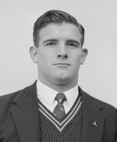 Australian rugby union football players Jim Lenehan and H Roberts